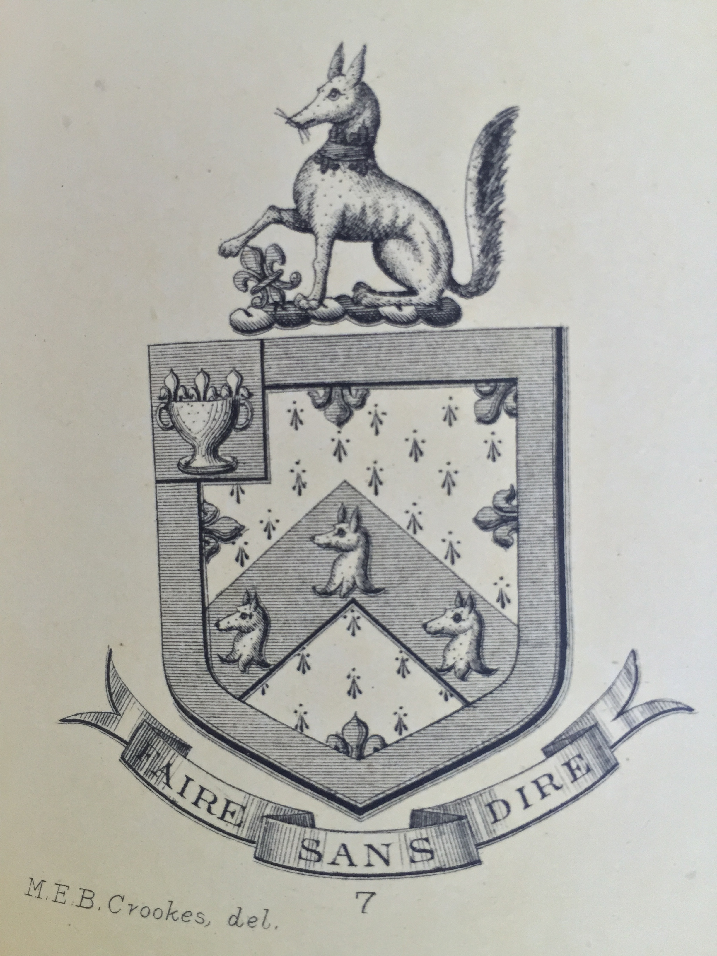 Fox's of Wellington Family coat of arms